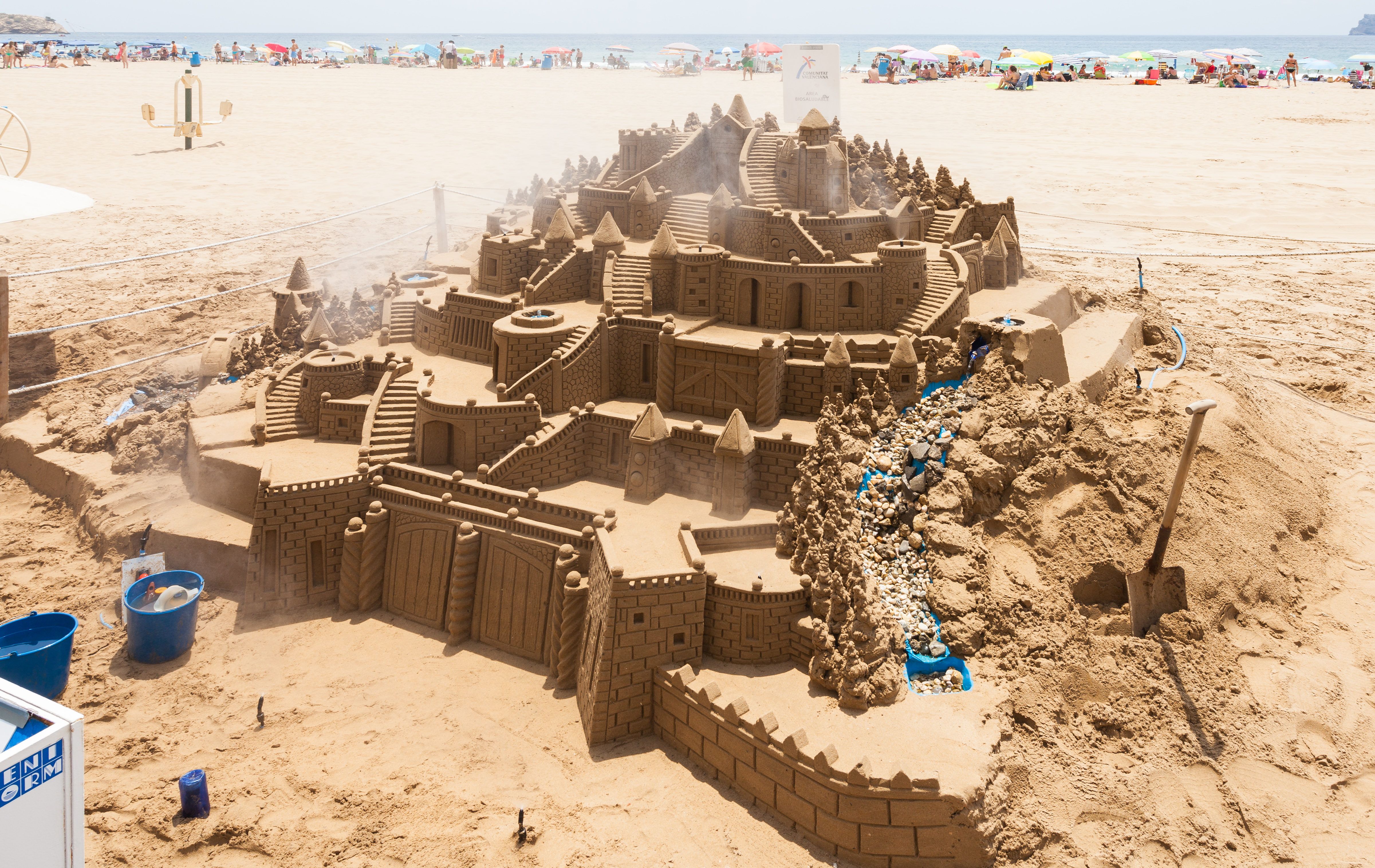 Levante beach, Benidorm, Spain